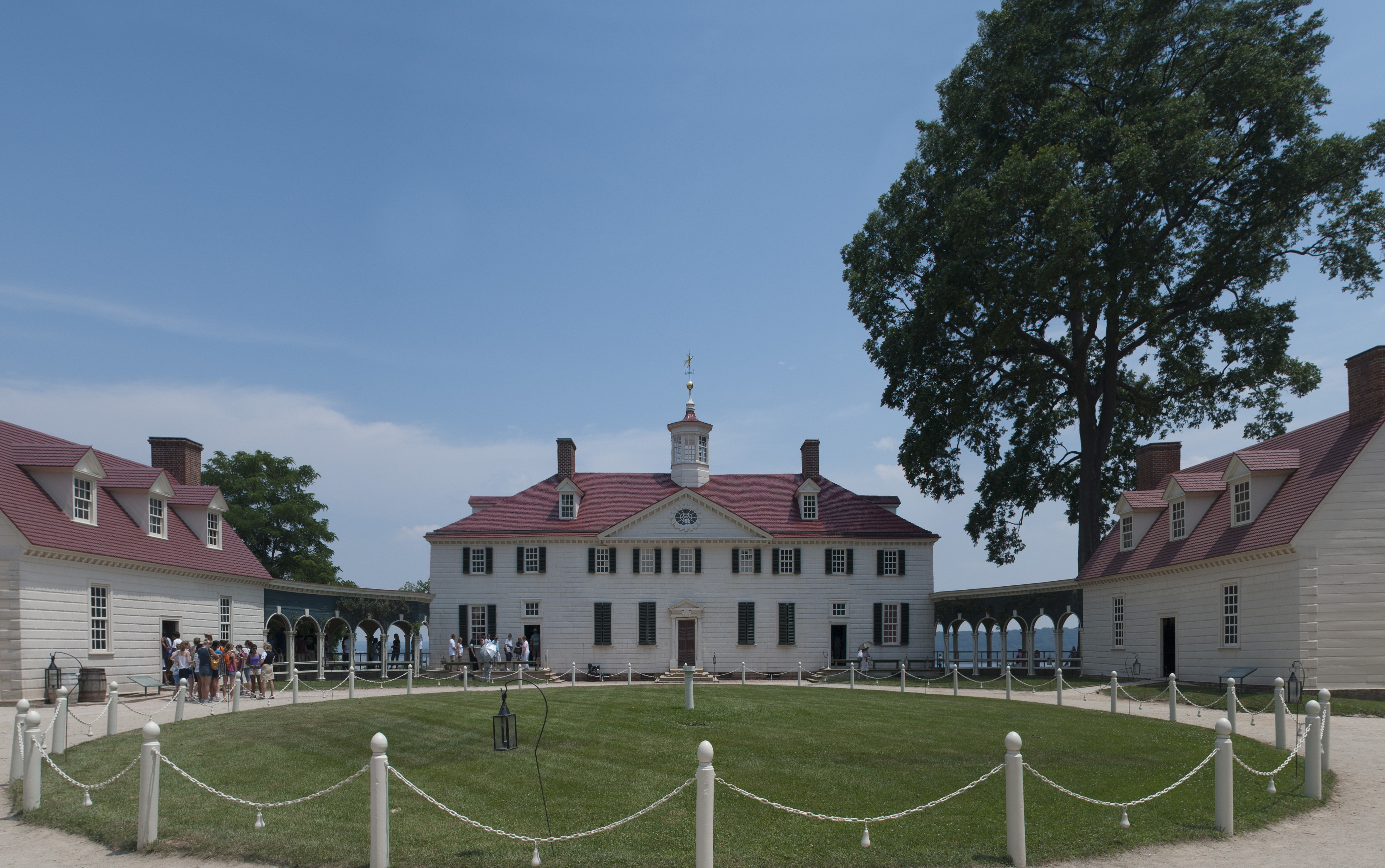 Photograph of Mount Vernon, Fairfax County, Virginia. George Washington's Home.